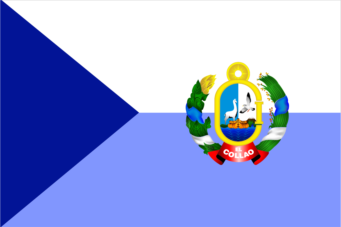 District wrench - Province of Collao - Puno Region